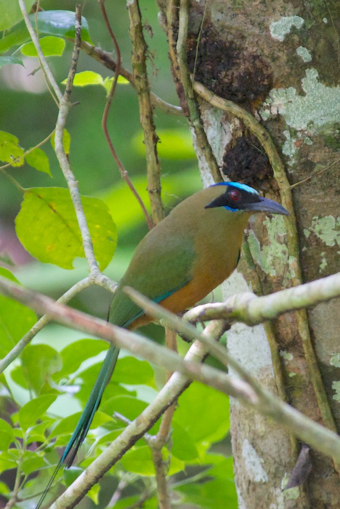 Whooping Motmot Momotus subrufescens, Panama